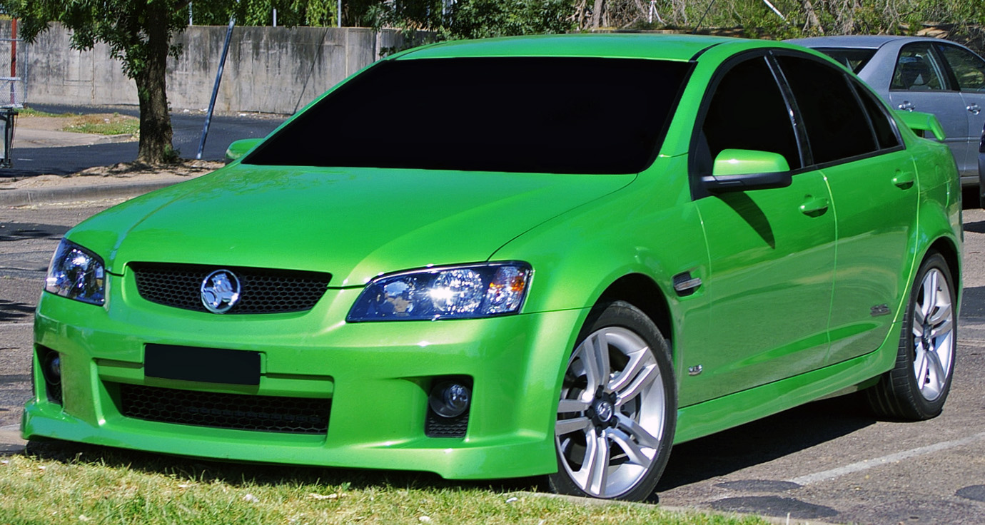 2006–2008 Holden VE Commodore SS V8 sedan.